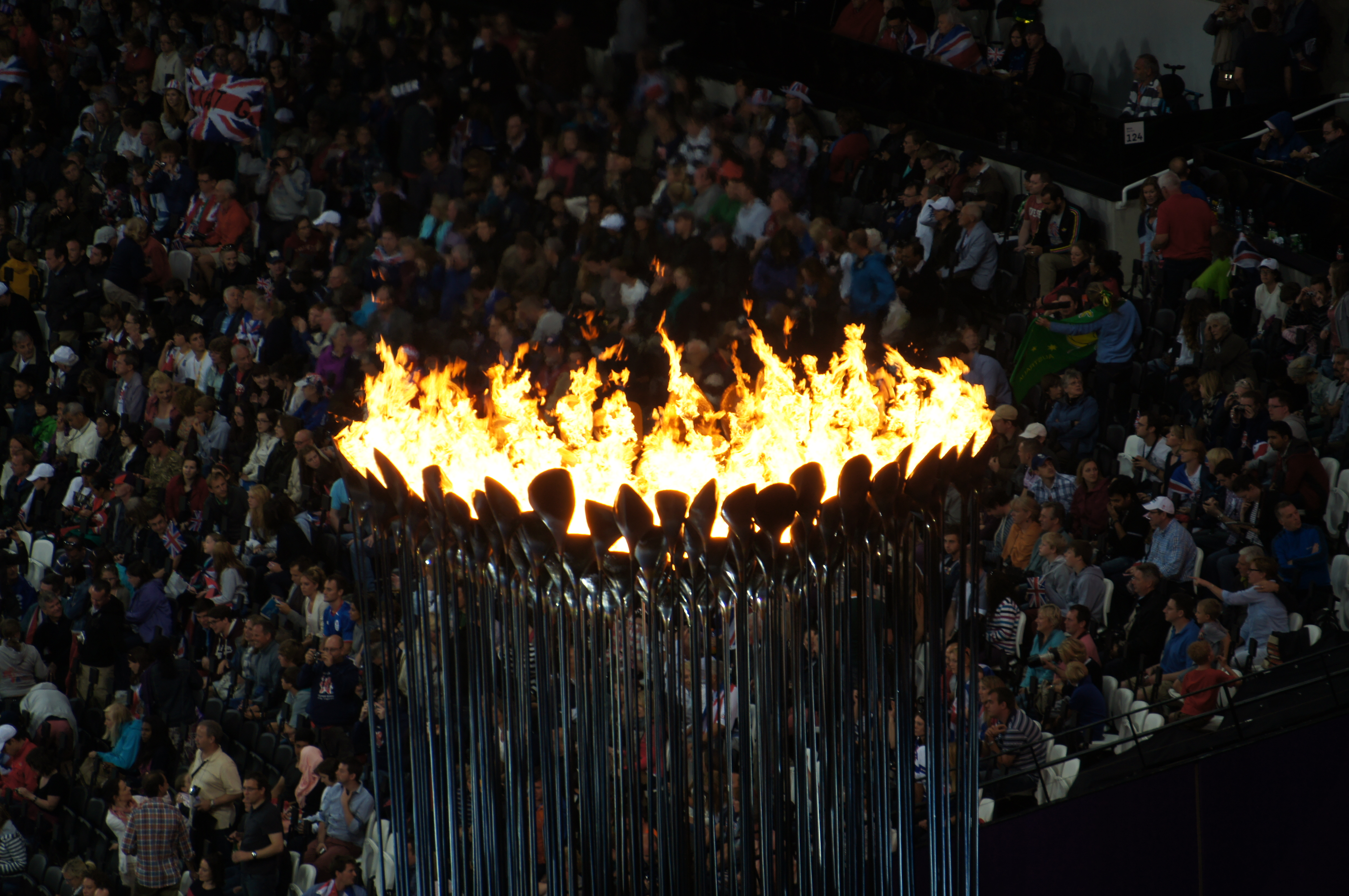 London 2012 Olympics Athletics